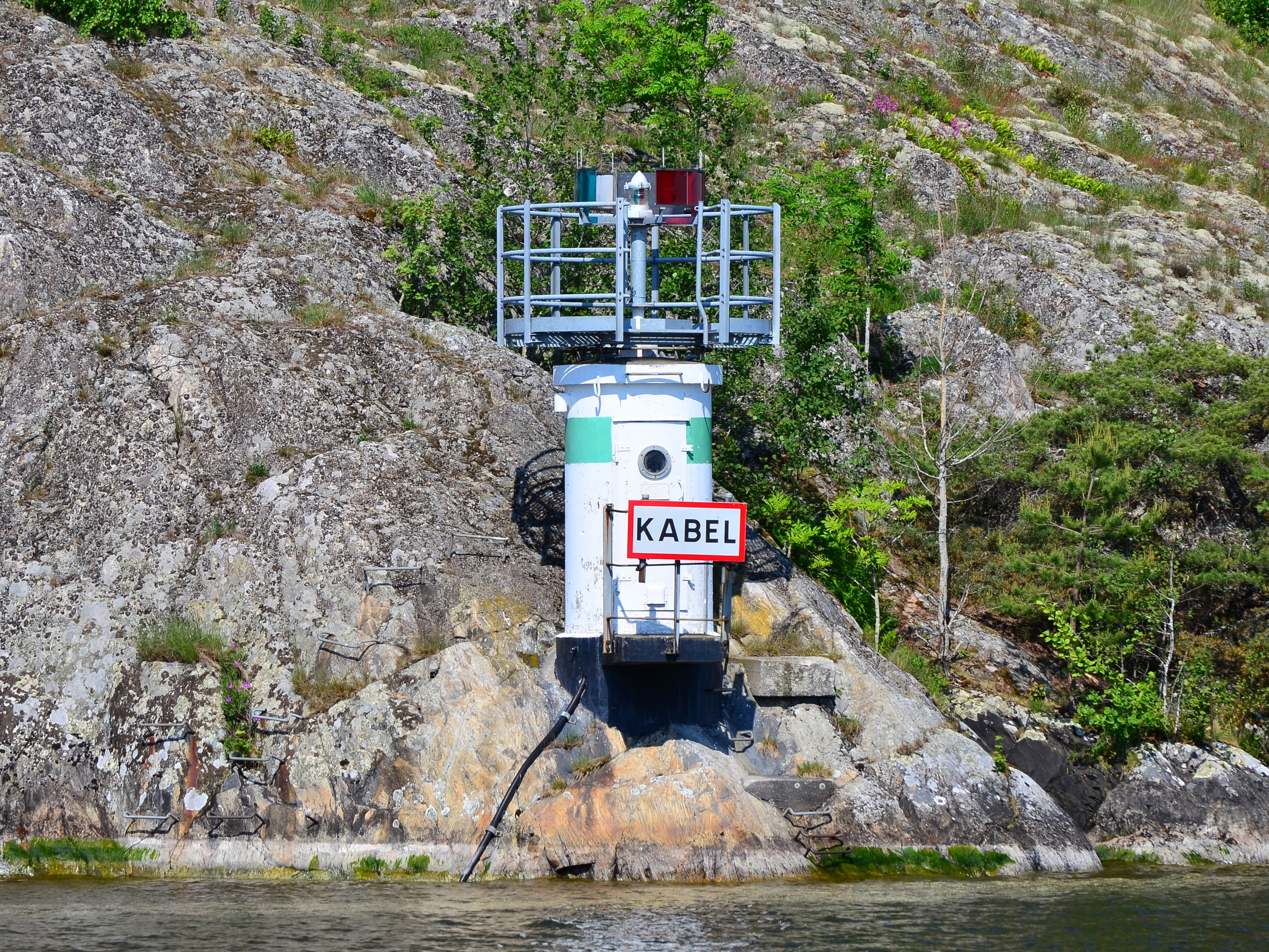 The lighthouse Estbröte on the isle with the same name, lake Mälaren, Sweden.